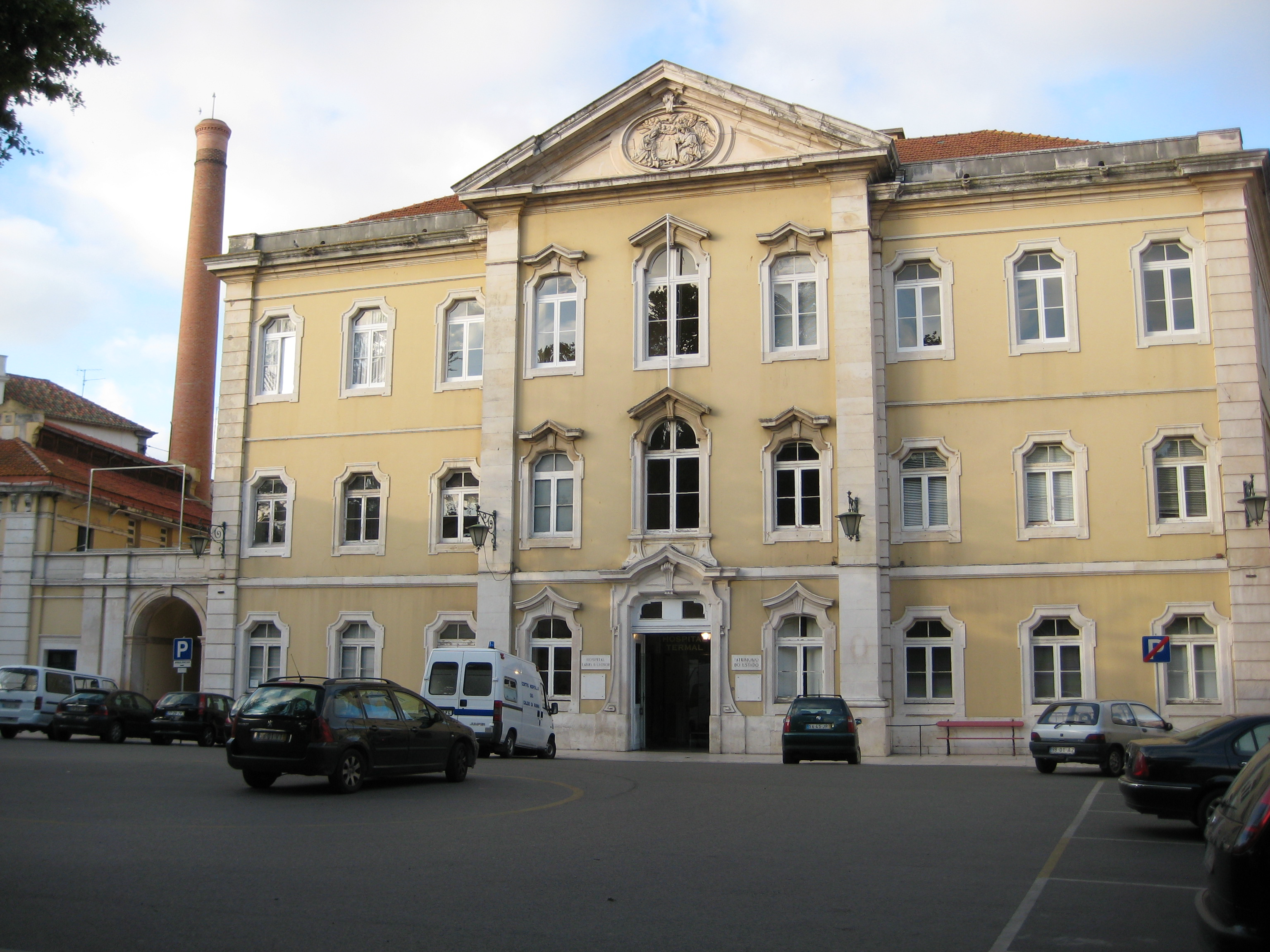 Photo of the hot spring hospital in Caldas da Rainha, taken by me June 23 en:2007